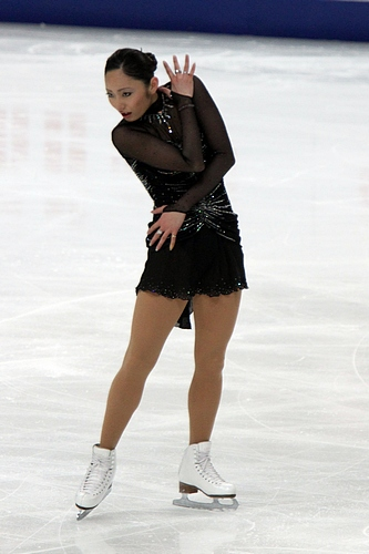 Miki ANDO at the 2011 World Figure Skating Championships